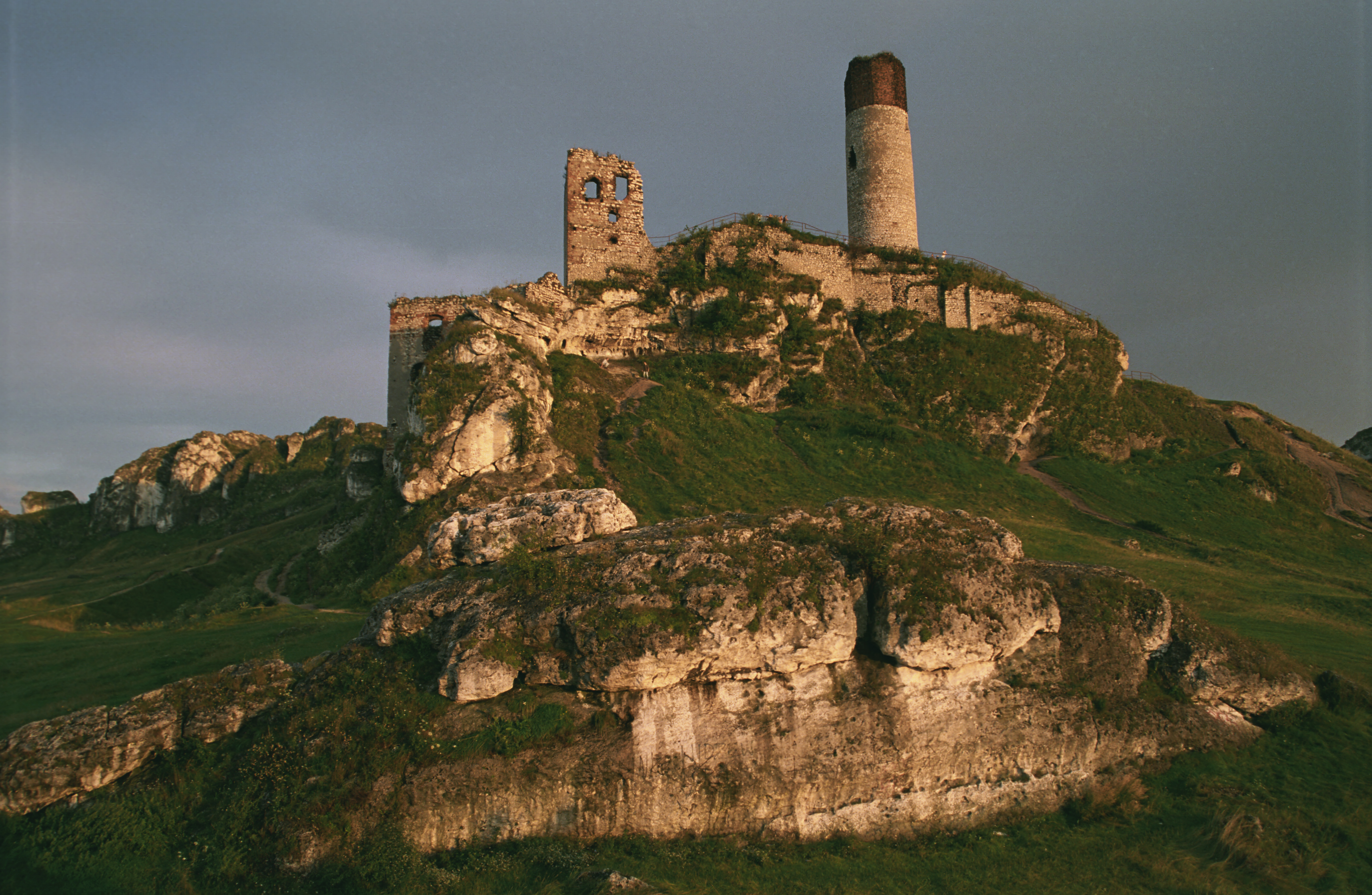 Poland, Jura, Olsztyn Castle